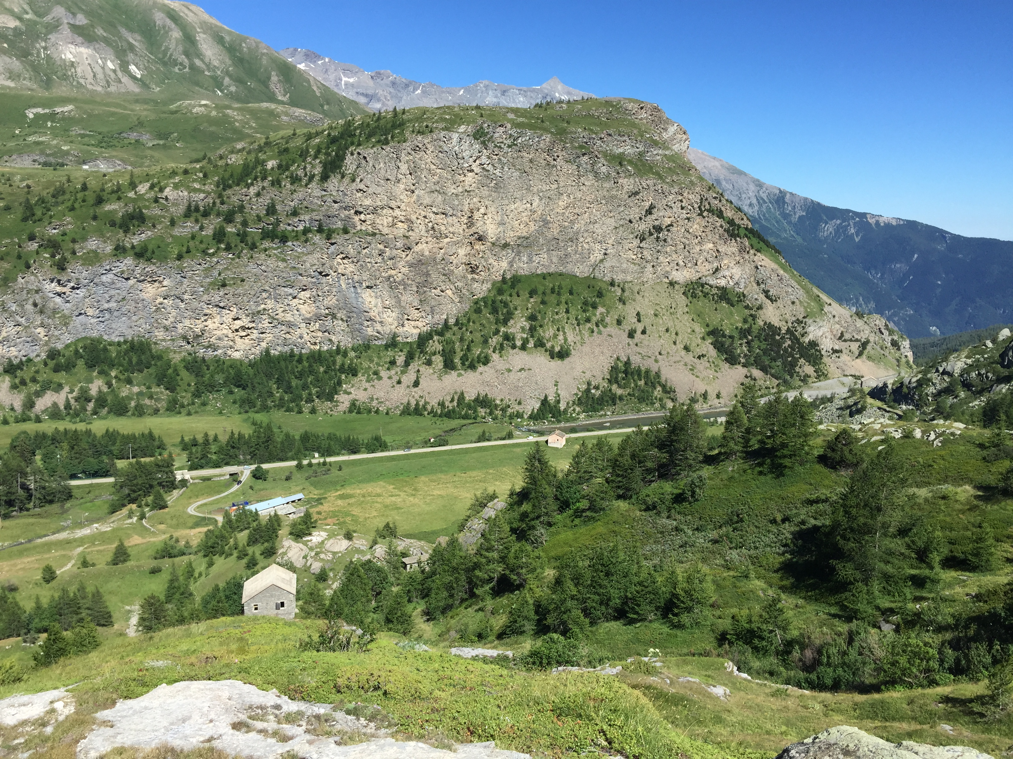 The end of the 1700 meters high Saint Nicolas plateau delimits the Franco-Italian border 8 km below the Mont-Cenis pass